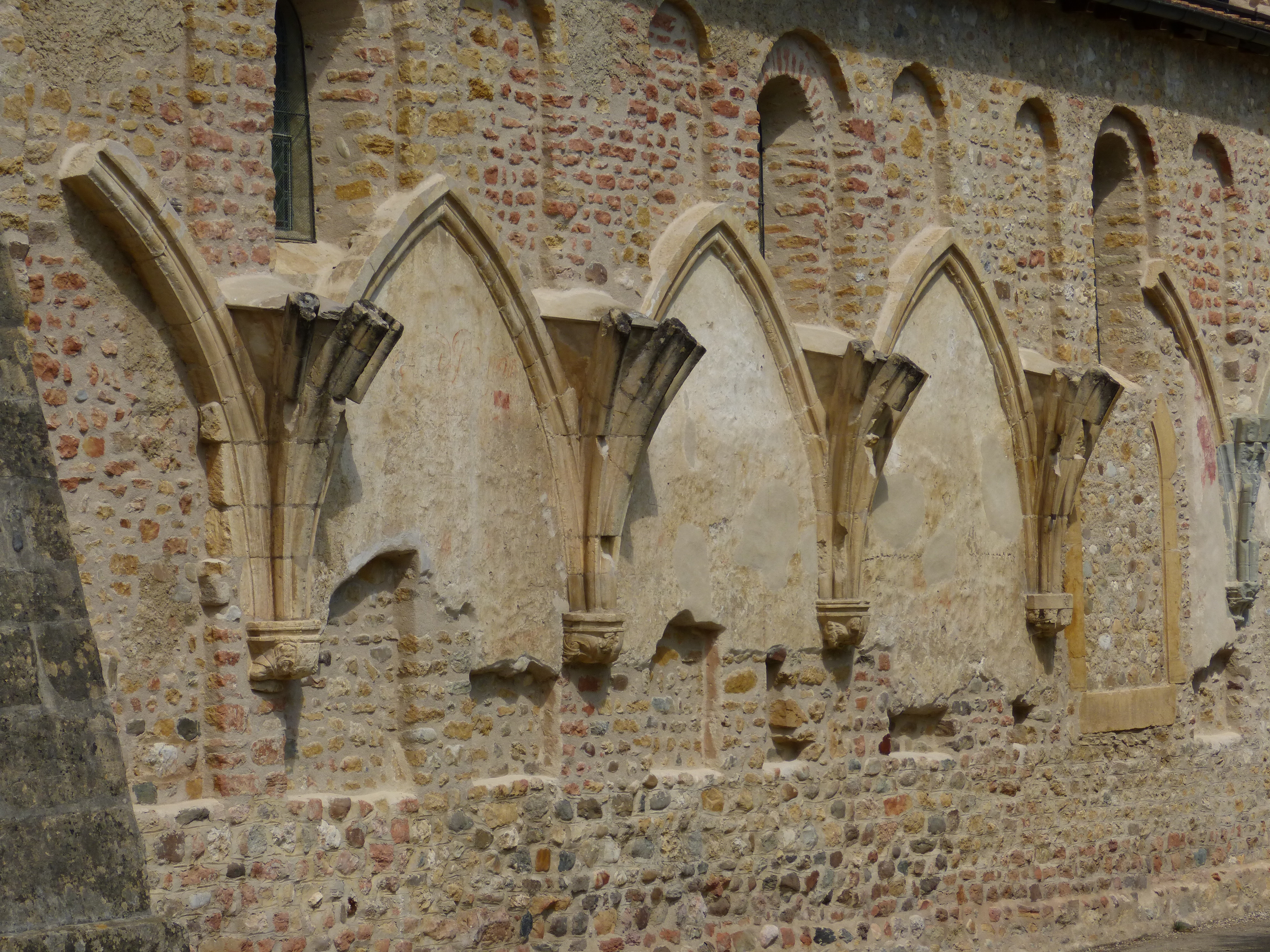 Gothic arches of Romainmôtier's priory.